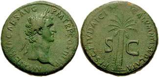 NERVA. 96-98 AD. Æ Sestertius (27.09 gm). Struck January-September 97 AD. Laureate head right / Palm tree. RIC II 82; BMCRE 106; Cohen 57. VF, green patina, light smoothing, trace of roughness on reverse.